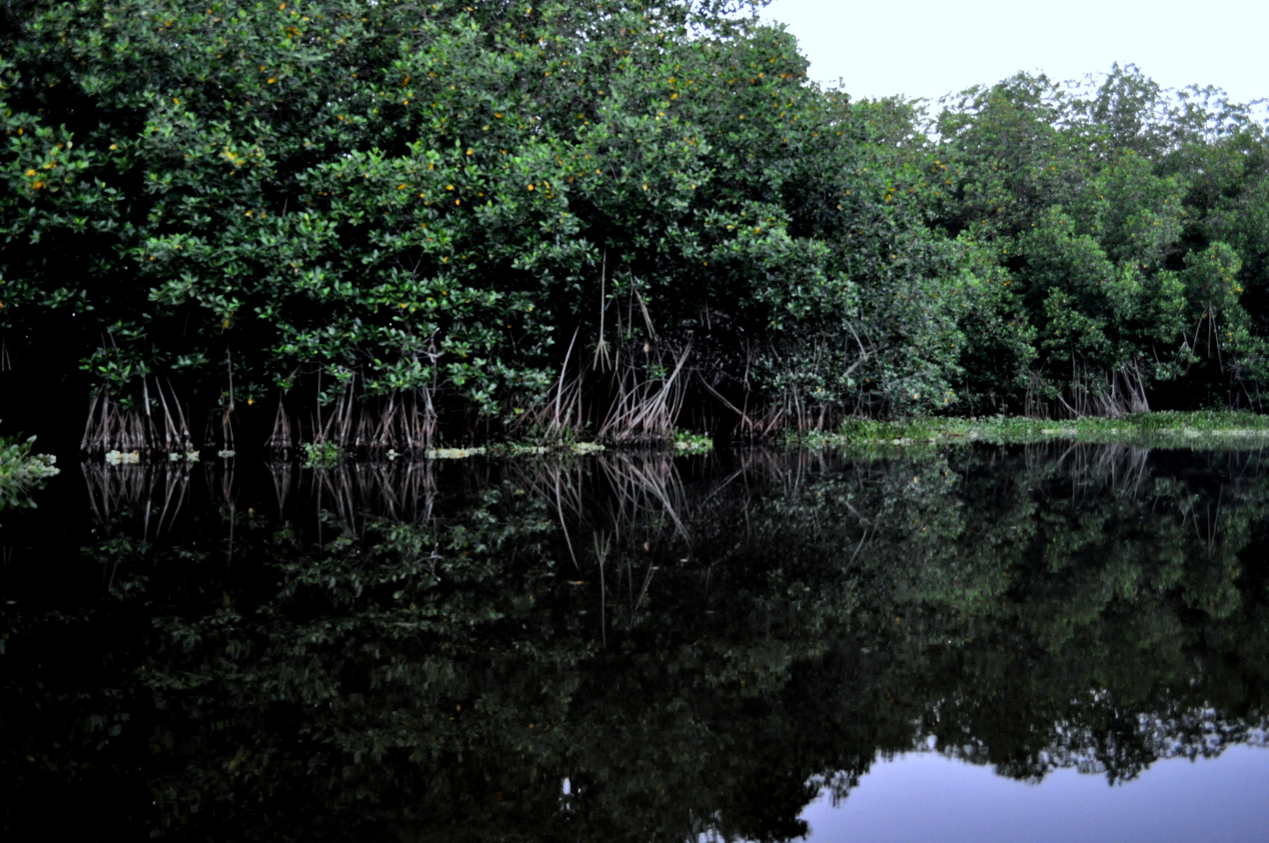 Mangroves in Monterrico, Santa Rosa, Guatemala.